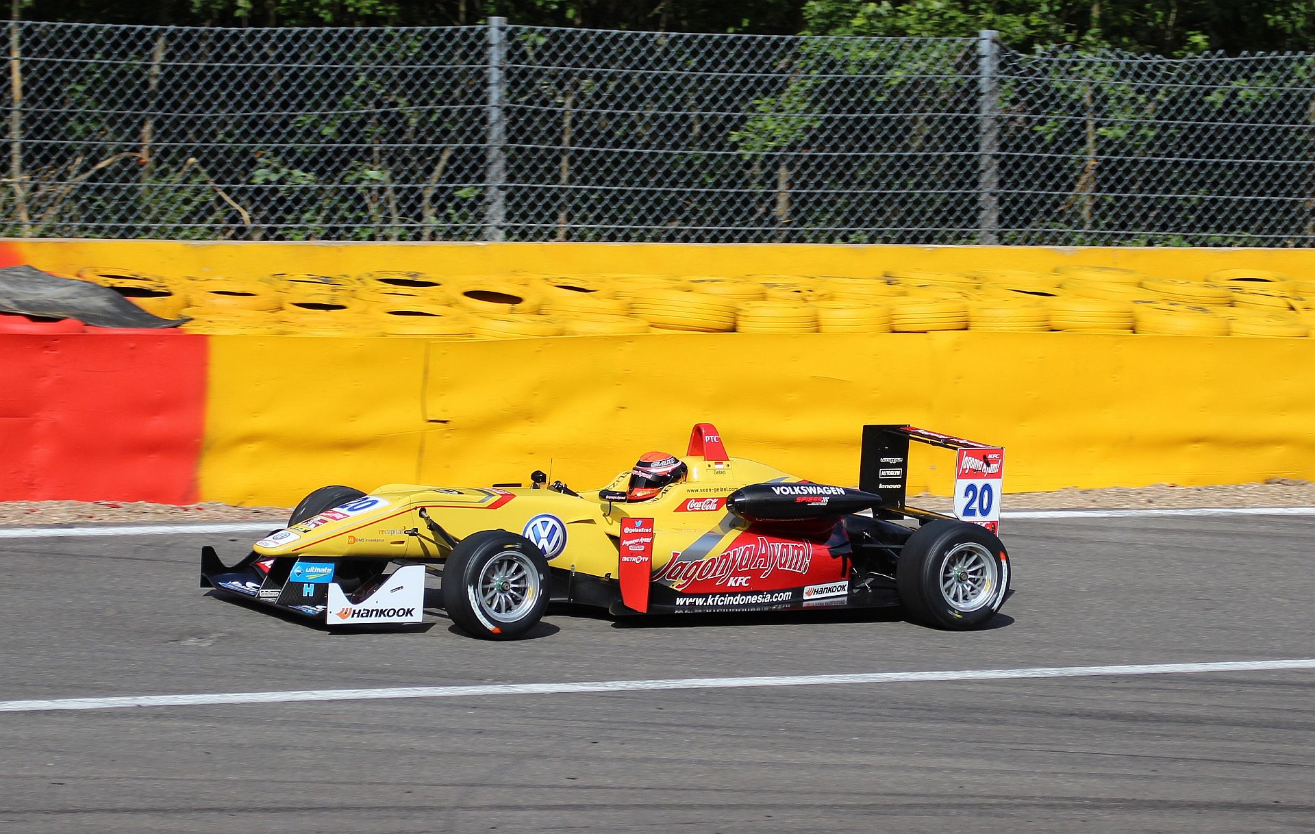 Sean Gelael at Spa in 2014, European Formula 3 Championship